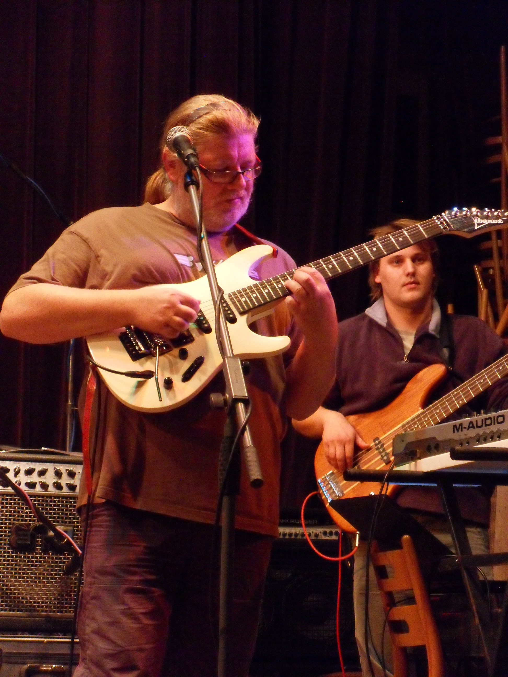 Guitarist Emil Kopřiva and bass guitarist Jakub Michálek, Czech band Futurum, Brno, Czech Republic